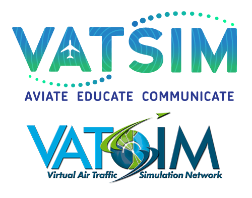 Comparison of the new logo (top) vs the old logo (bottom).